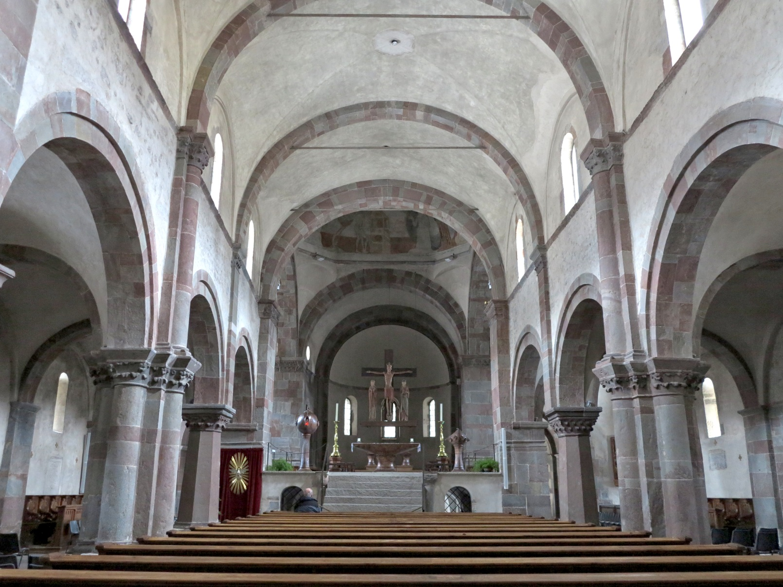 Village of Innichen, Monastery Church